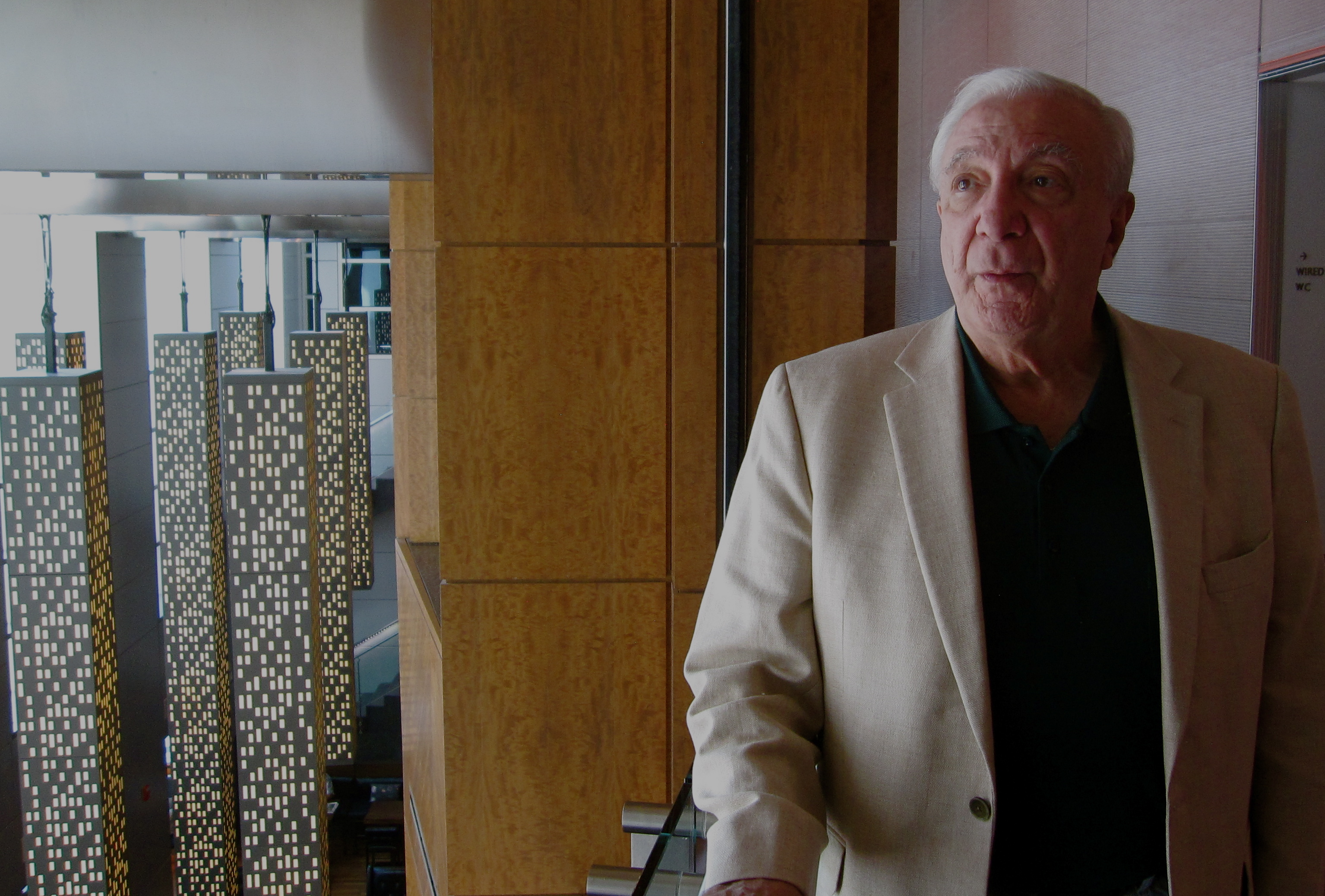 Photo of John Casti in W Hotel, Hoboken, NJ